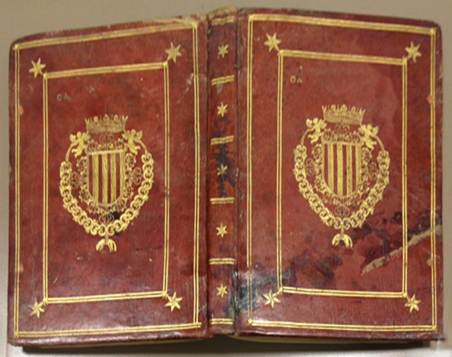 Tarragona (Biblioteca Pública de Tarragona), Catalonia: Discursos sobre las plazas de Nápoles from Peter IV of Empúries Library